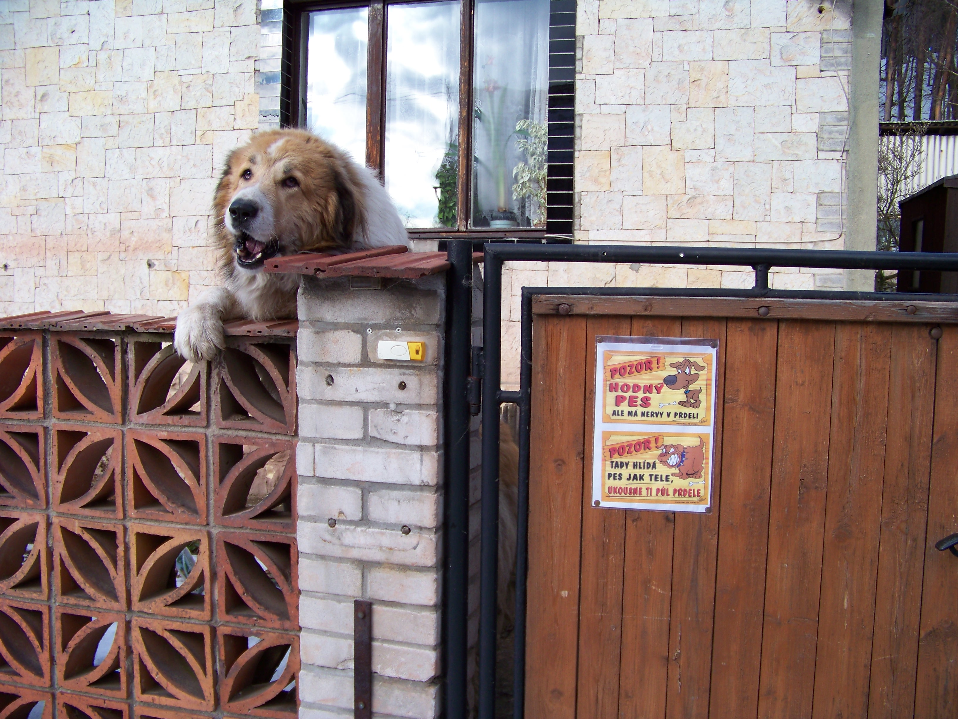 Mutějovice, Rakovník District, the Czech Republic.